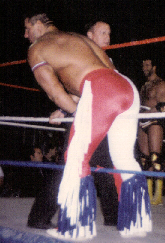 "British Bulldog" Davey Boy Smith at a WWF event in 1995